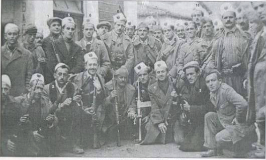 Balli Kombetar forces in Debar